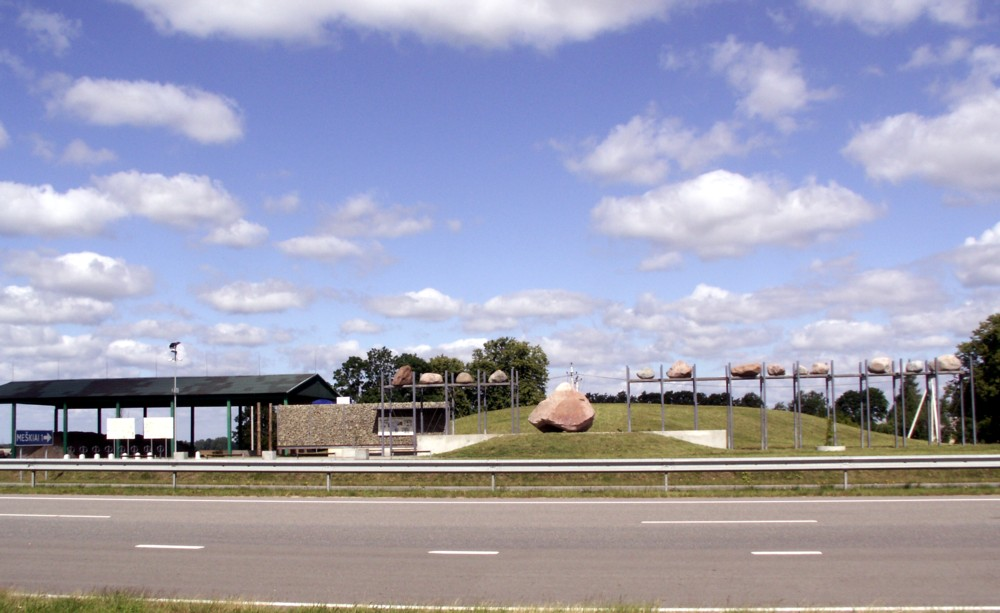 Meškiai, Šiauliai district, Lithuania